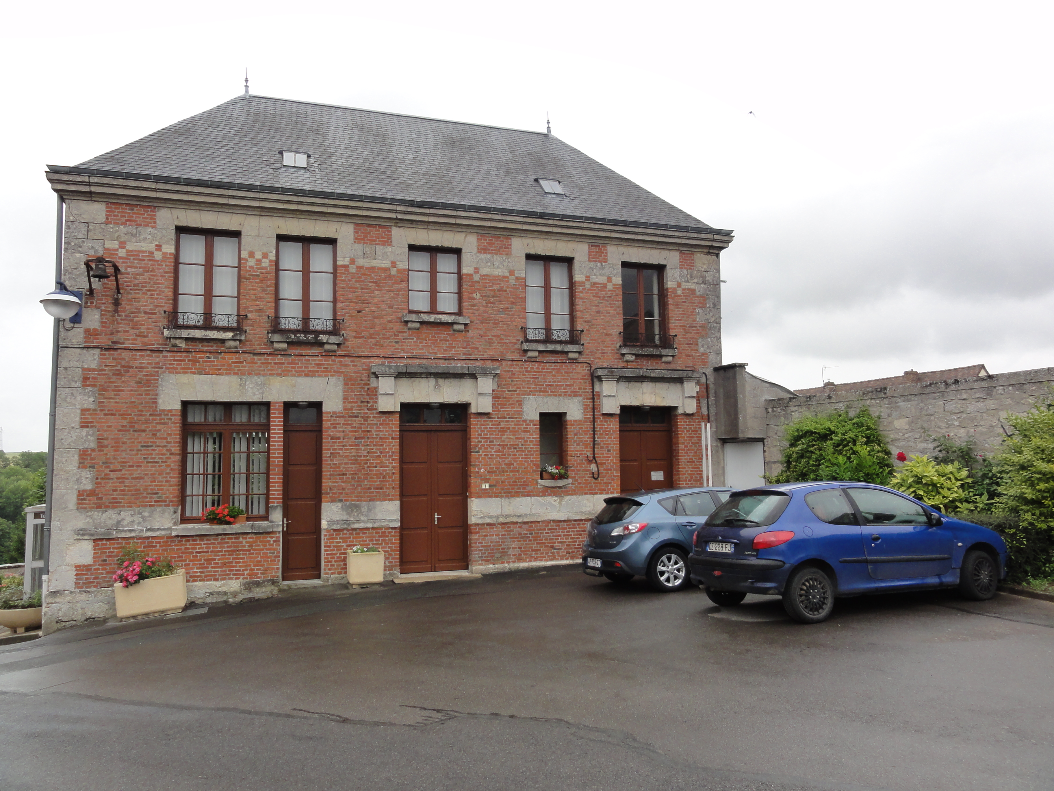 Leury (Aisne) mairie